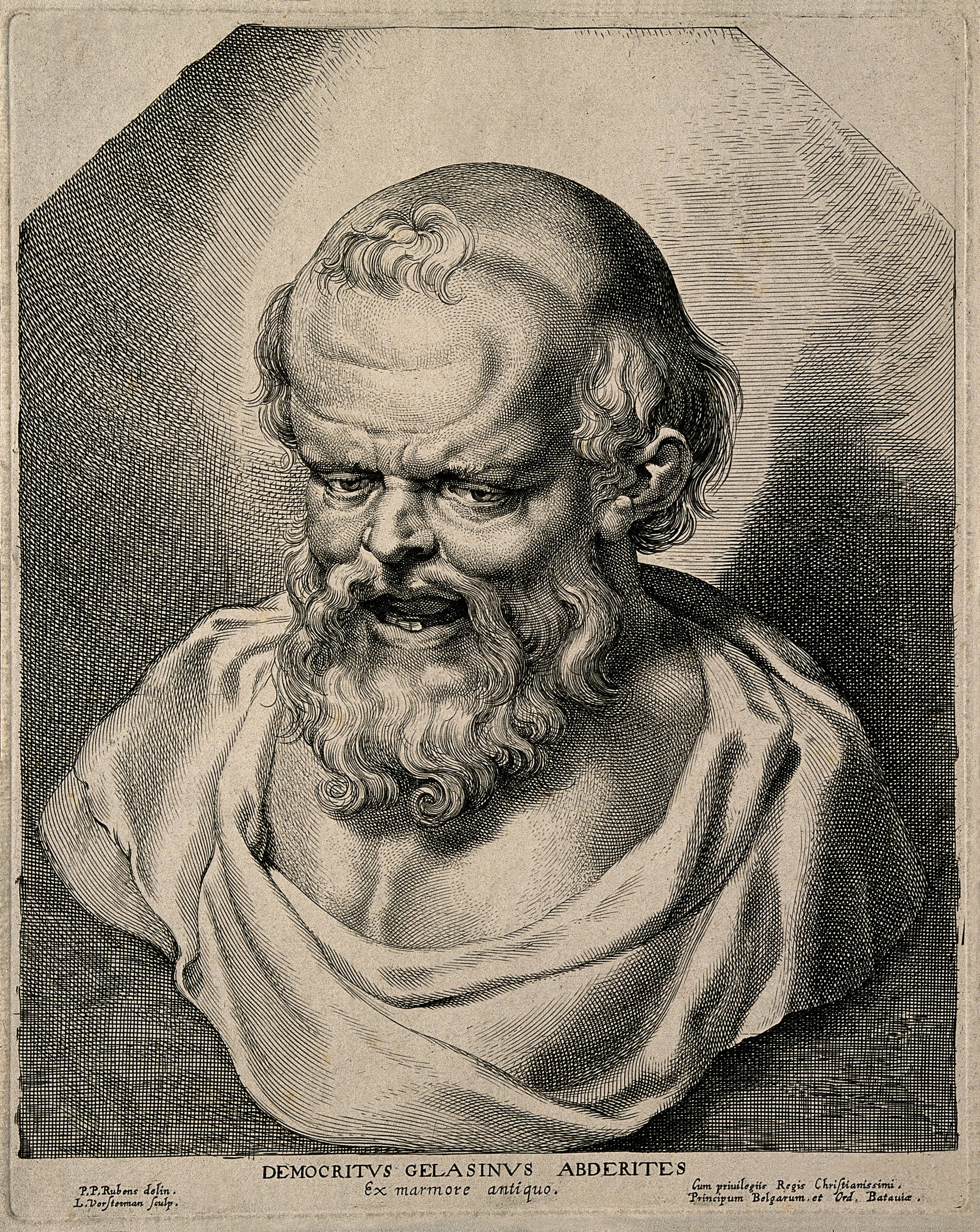 Democritus. Line engraving by L. Vorsterman after P. P. Rubens. Iconographic Collections Keywords: portrait prints; Lucas Emil Vorsterman; engravings; Democritus